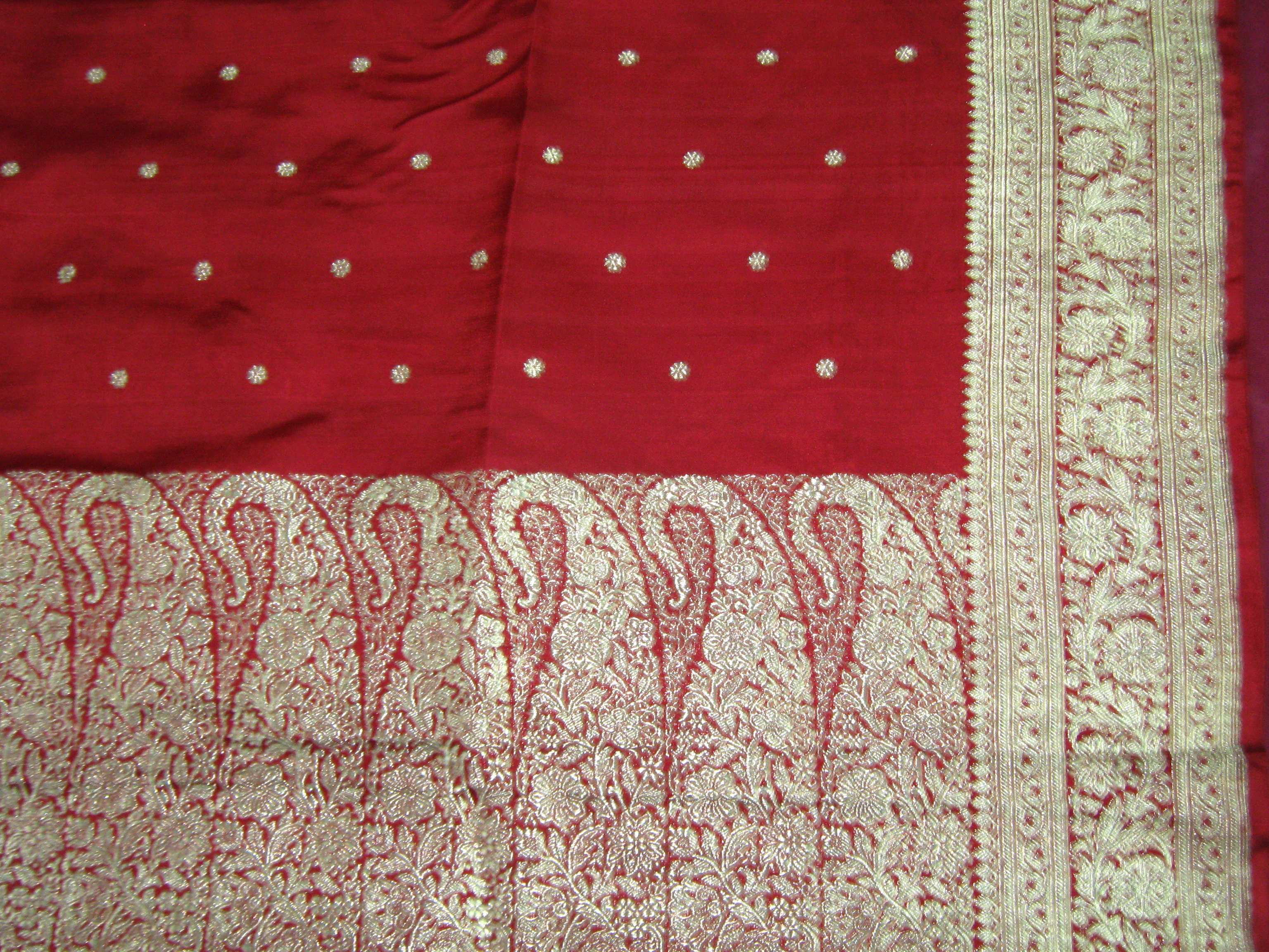 A pallu of a Banarasi sari